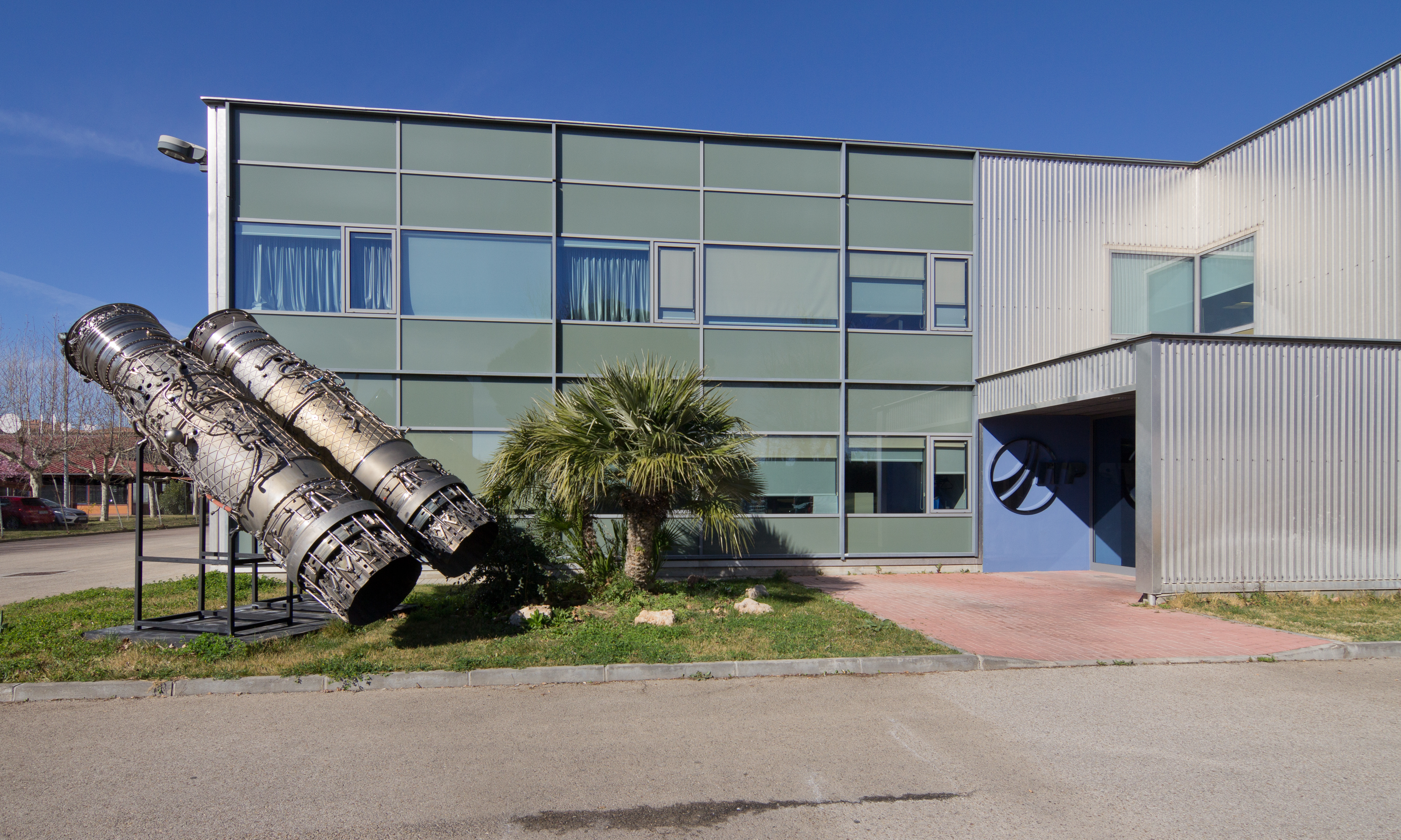 Factory of Industria de Turbo Propulsores (ITP) in Ajalvir, Community of Madrid, Spain.